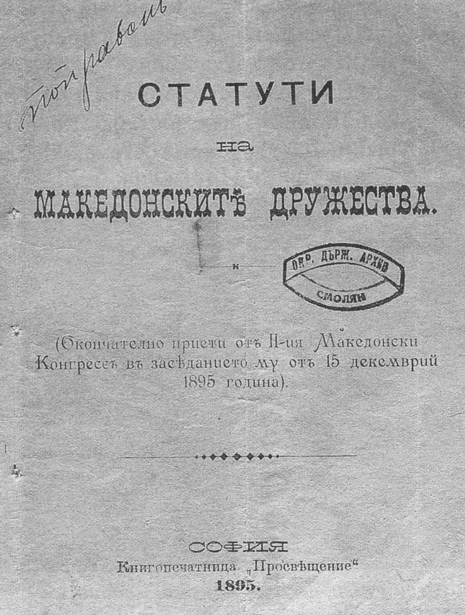 Statutes of the Macedonian Organization, 1895